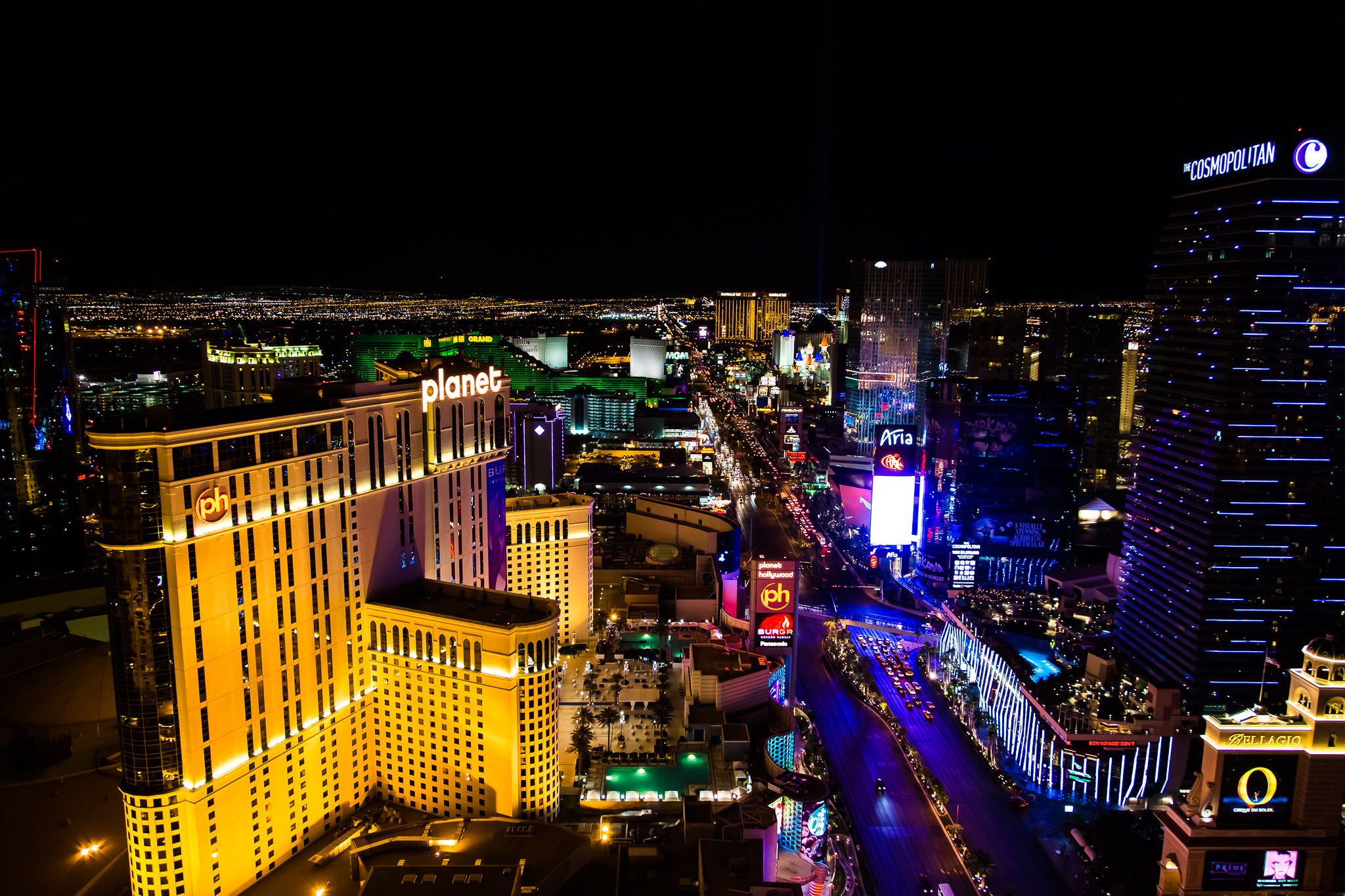 The Strip from Eiffel Tower